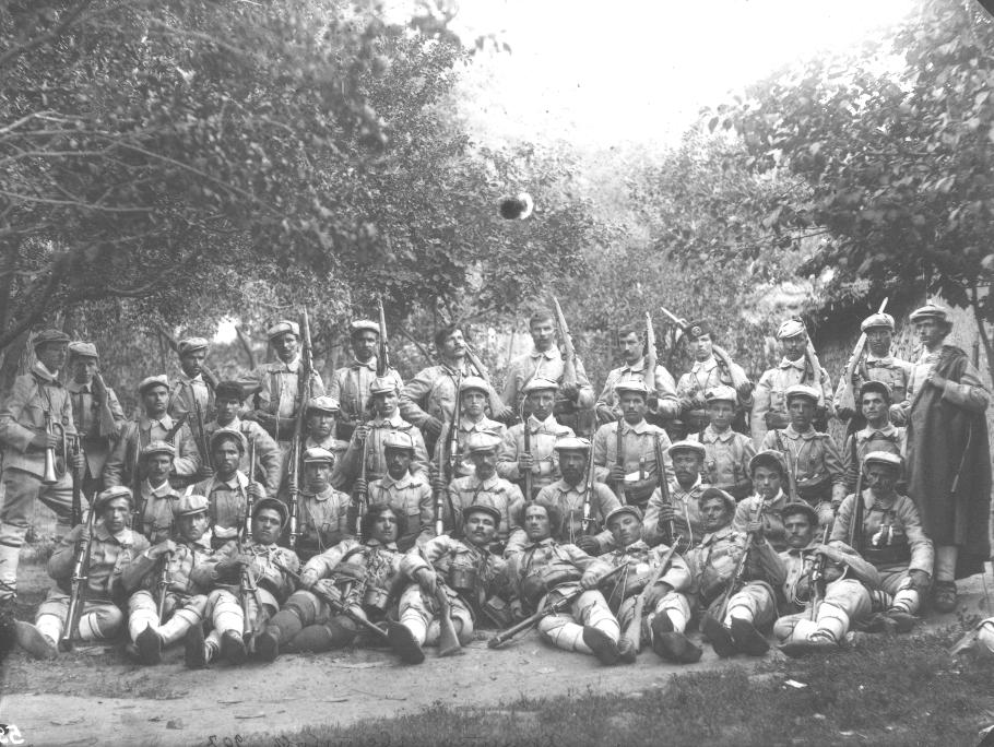 Cheta of IMARO voevoda Hristo Tsvetkov